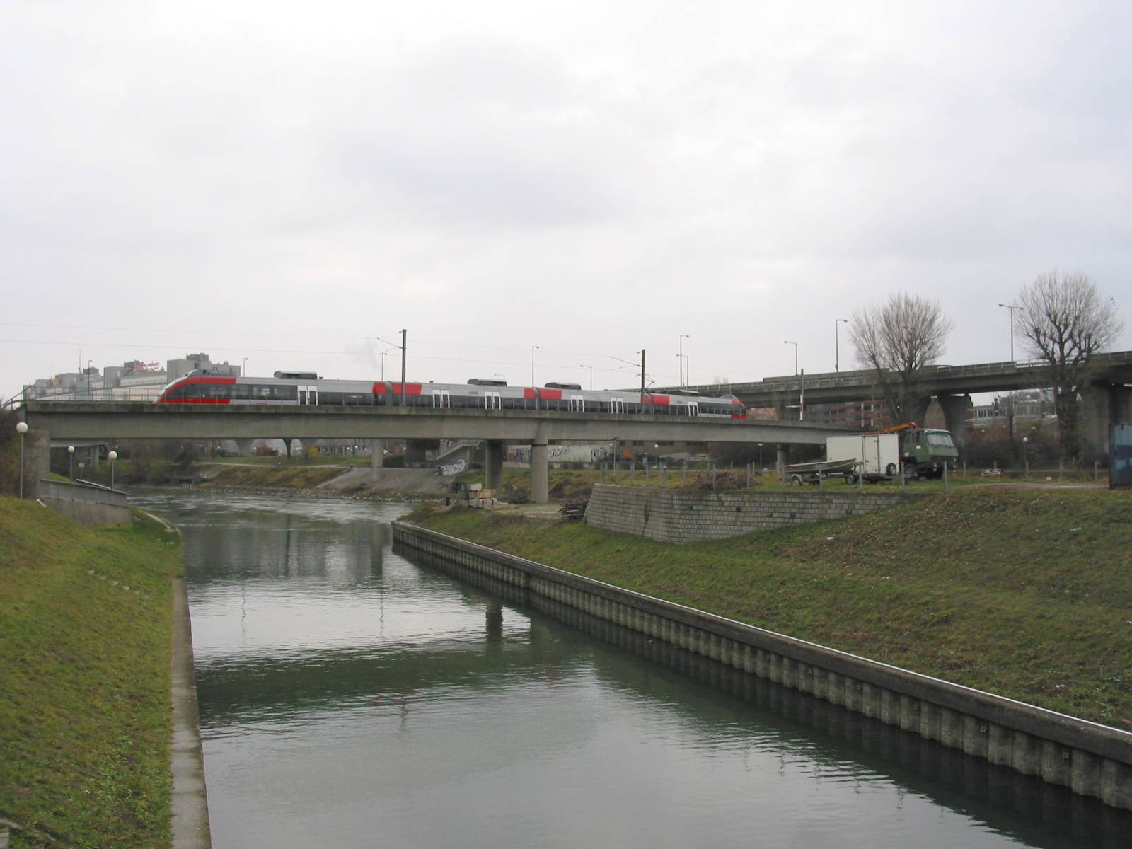 Bridge of Vororteline over Donaukanal, 2006-12-25 own work